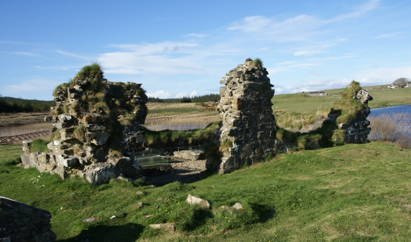 Kilfinlaggan Chapel, Islay, Argyll and Bute, Scotland.